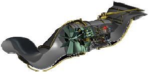 Cut-away view of a sample engine for the US Air Force's Adaptive Versatile Engine Technology (ADVENT) program.